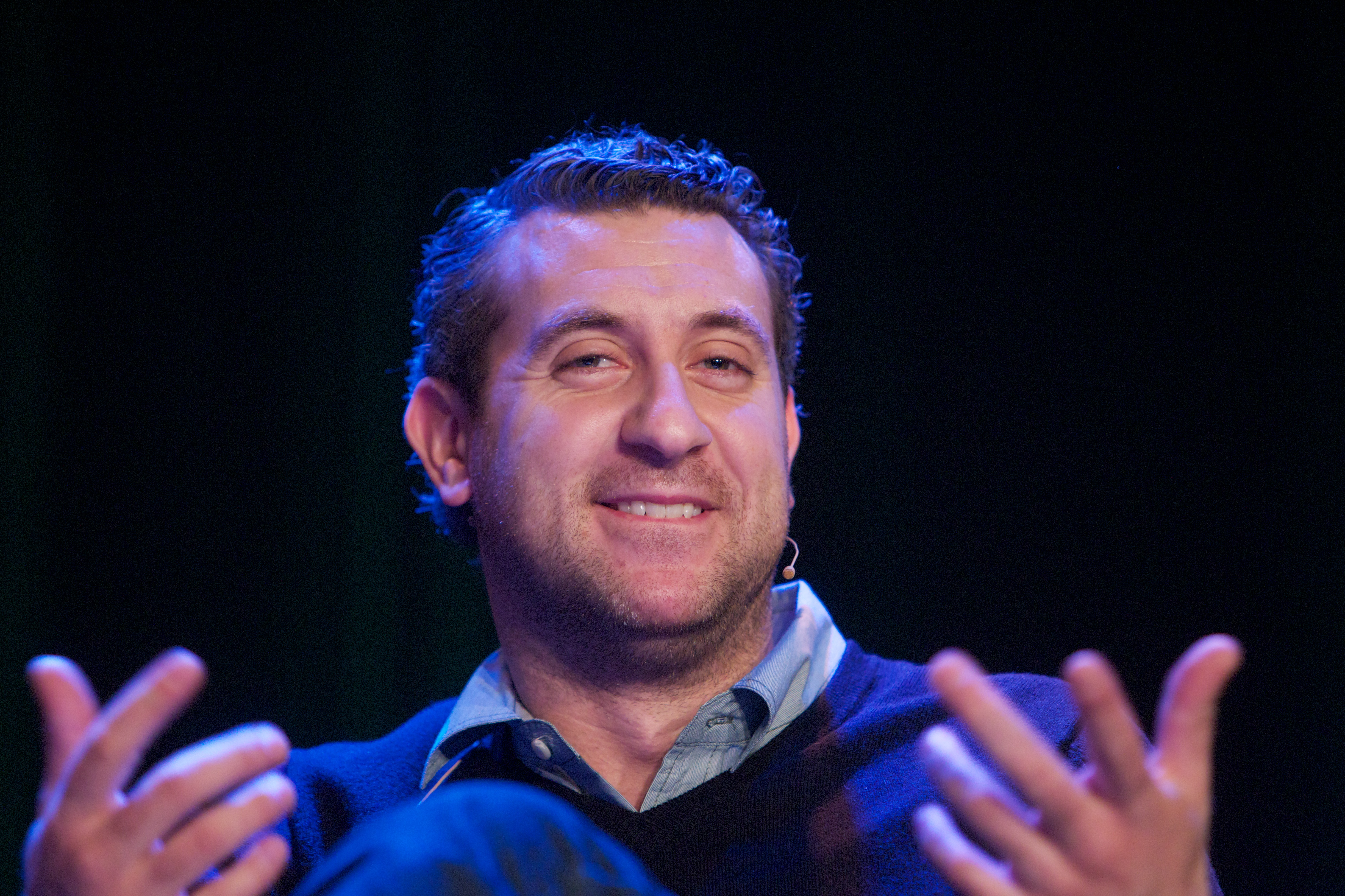 Bergen, 20110513. Nordiske Mediedager, fredag. Rory Albanese, Writer & Executive Producer, The Daily Show with Jon Stewart. Foto: Eirik Helland Urke